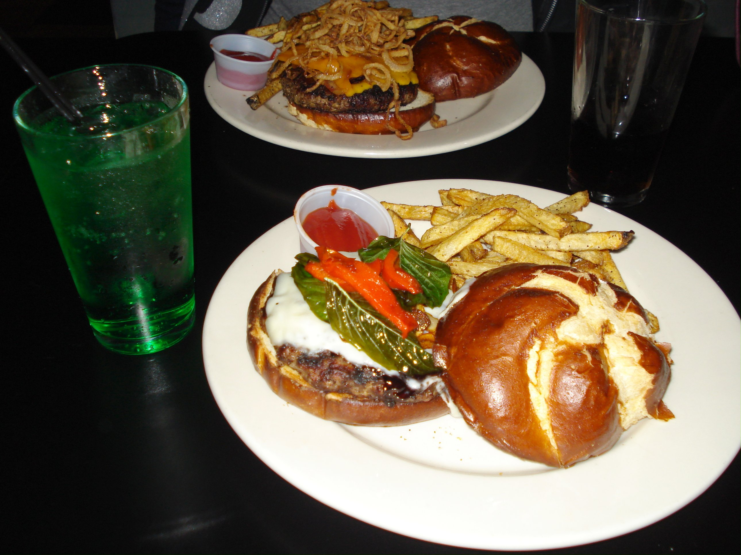 An image of the "Nachtmystium" burger from Chicago's heavy metal-themed restaurant Kuma's Corner. Named after the Chicagoland psychedelic/black metal band, the burger was Kuma's monthly special for May 2008.NåCH†MYS†IUM BURGER